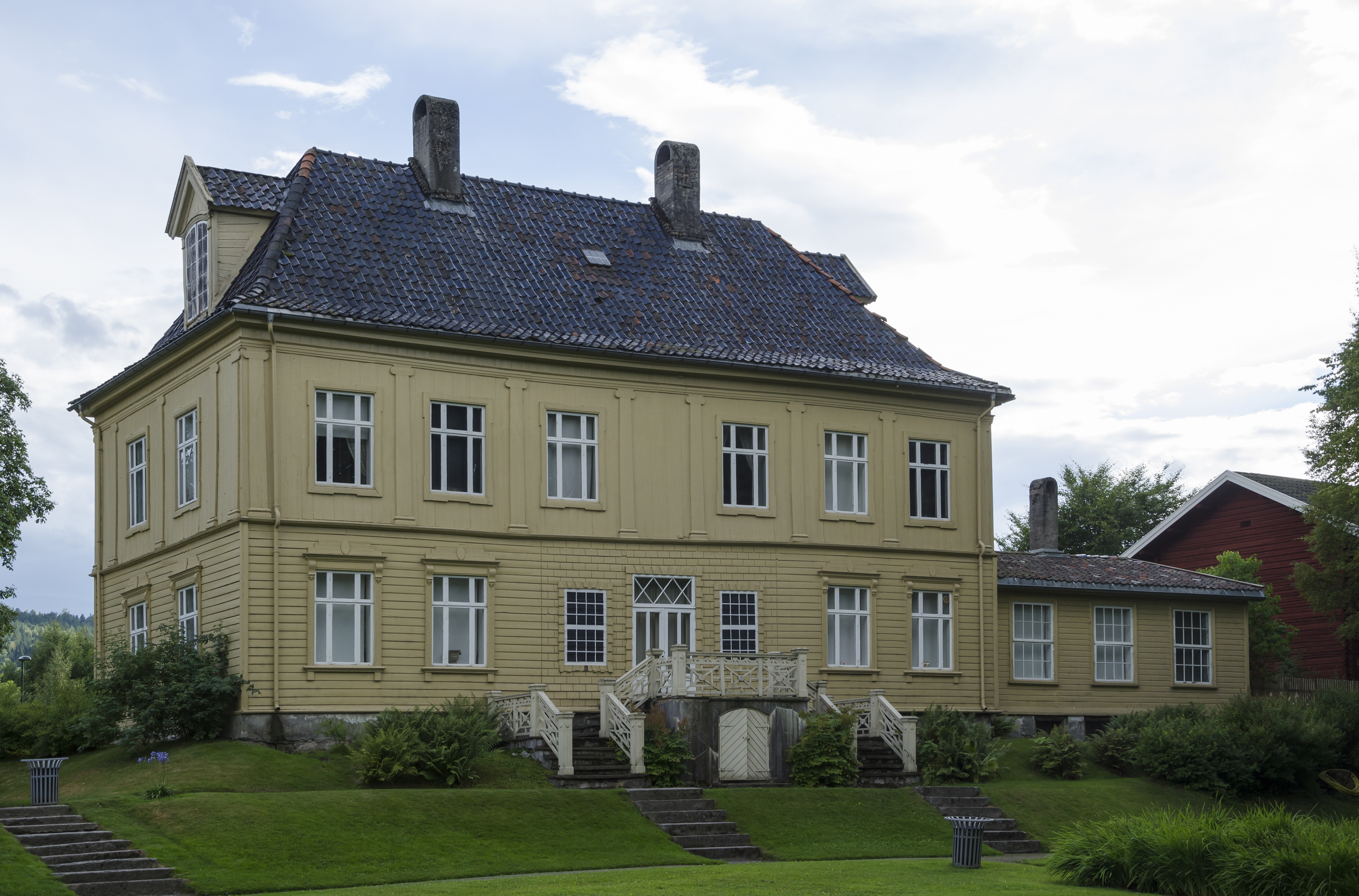 Rear view of Gulskogen (eng. Yellow forest) Manor, bought by Peter Nicolai Arbo and Anne Cathrine Collett in 1793 and turned into a manorial estate in the following years. It was made a museum in 1963. The house, its contents and the park surrounding the estate are intact from the 1800s.